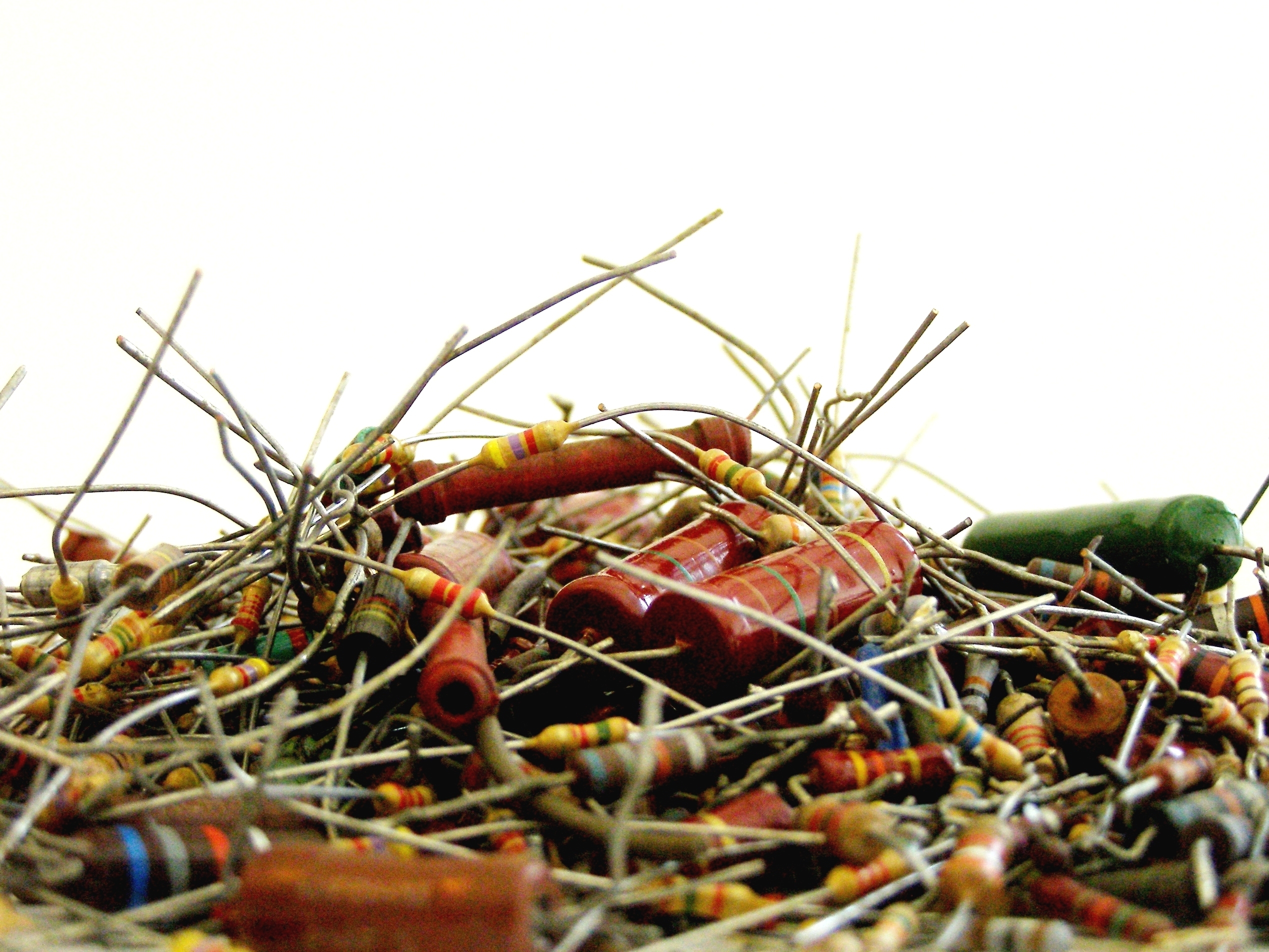 A mountain of resistors, taken from near distance.